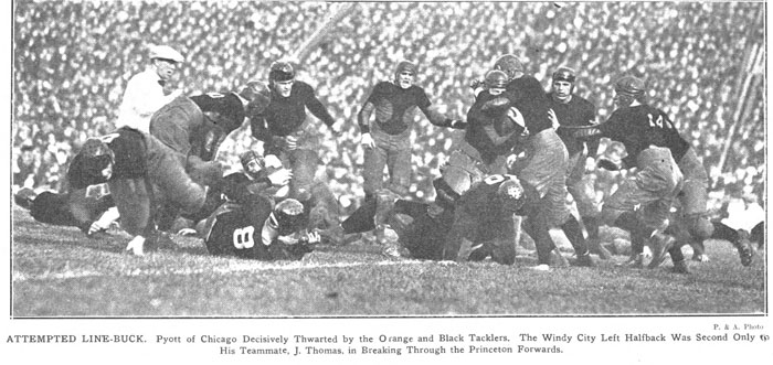 Picture from the 1922 Princeton v. Chicago football game. Chicago was about to go up 18–7 about to score again when it fumbled and Princeton got a touchdown. The arrow points to Gray of Princeton scoring.